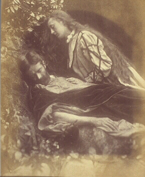 Gareth and Lynette, albumen print, 33.7 x 26.7 cm.